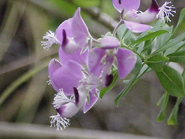 Species: Polygala myrtifolia Family: Polygalaceae Image No. 5